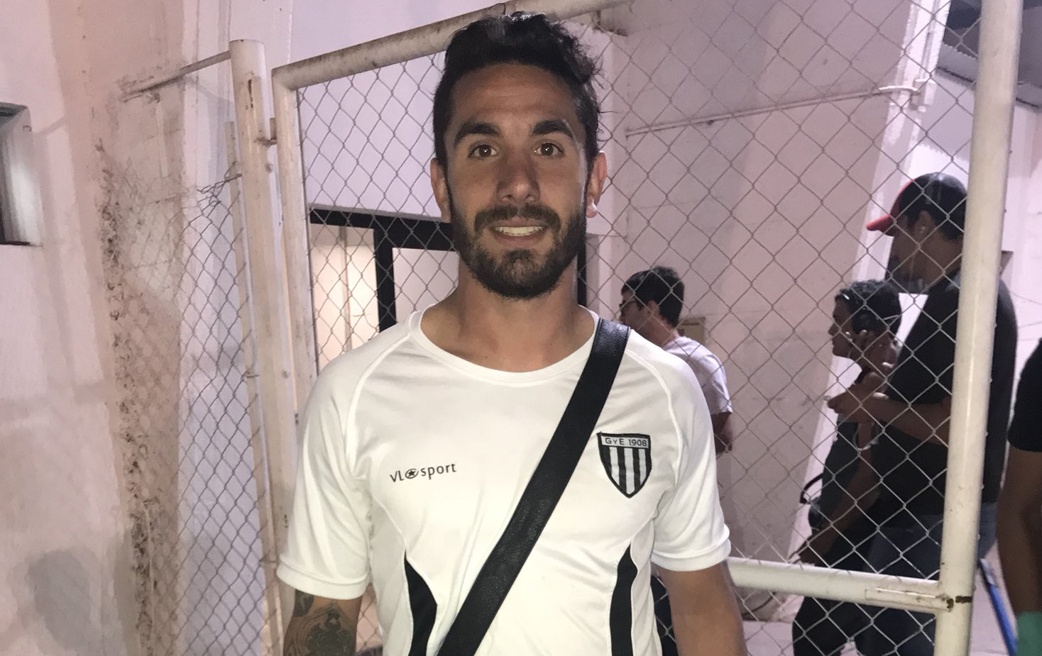 Patricio Cucchi in 2017.